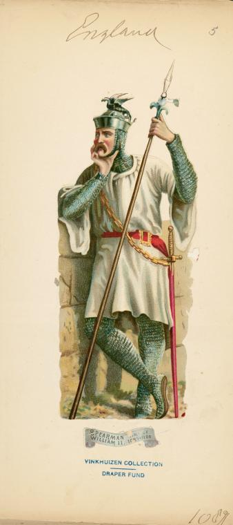 Spearmen of King William II. Drawing from Vinkhuijzen Collection of Military Costume Illustration.